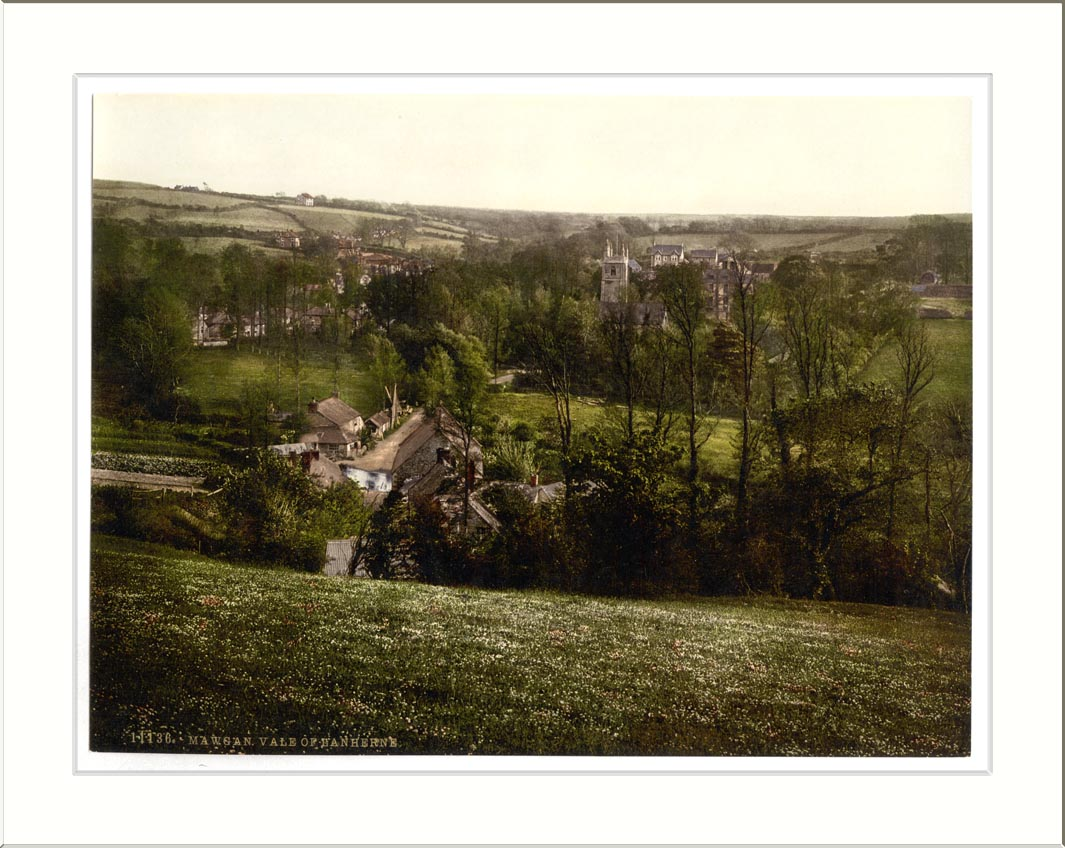 Mawgan Vale of Lanherne Cornwall England